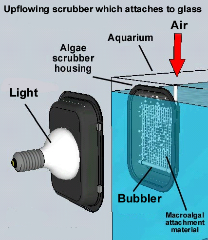 One version of an algae scrubber with attaches to glass by magnets